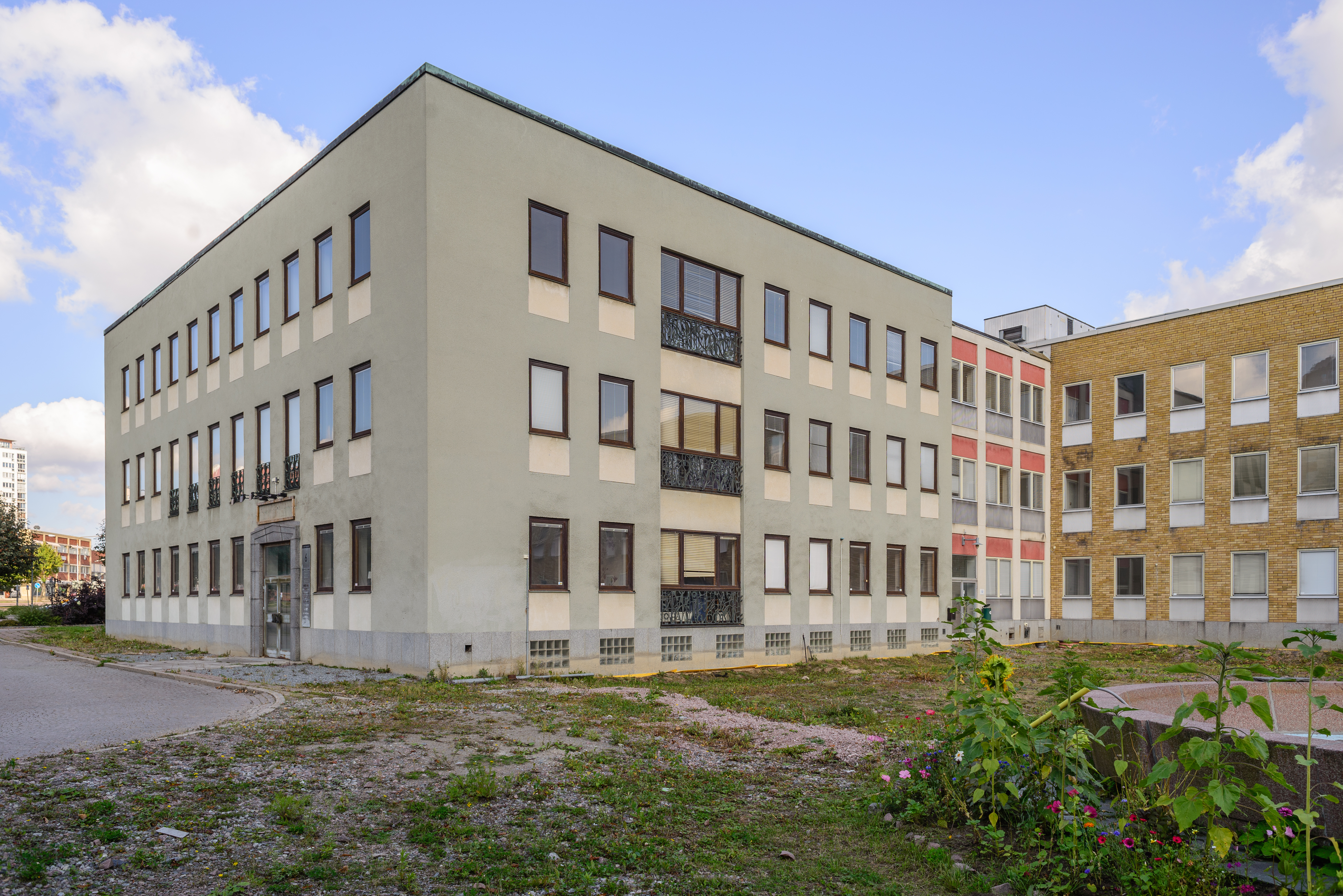 Former corporate headquarters of Svenska Metallverken (Swedish Metal works). Västerås, Sweden.